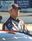 Jesus Hernandez waits to qualify at Stafford Motor Speedway in 2008.